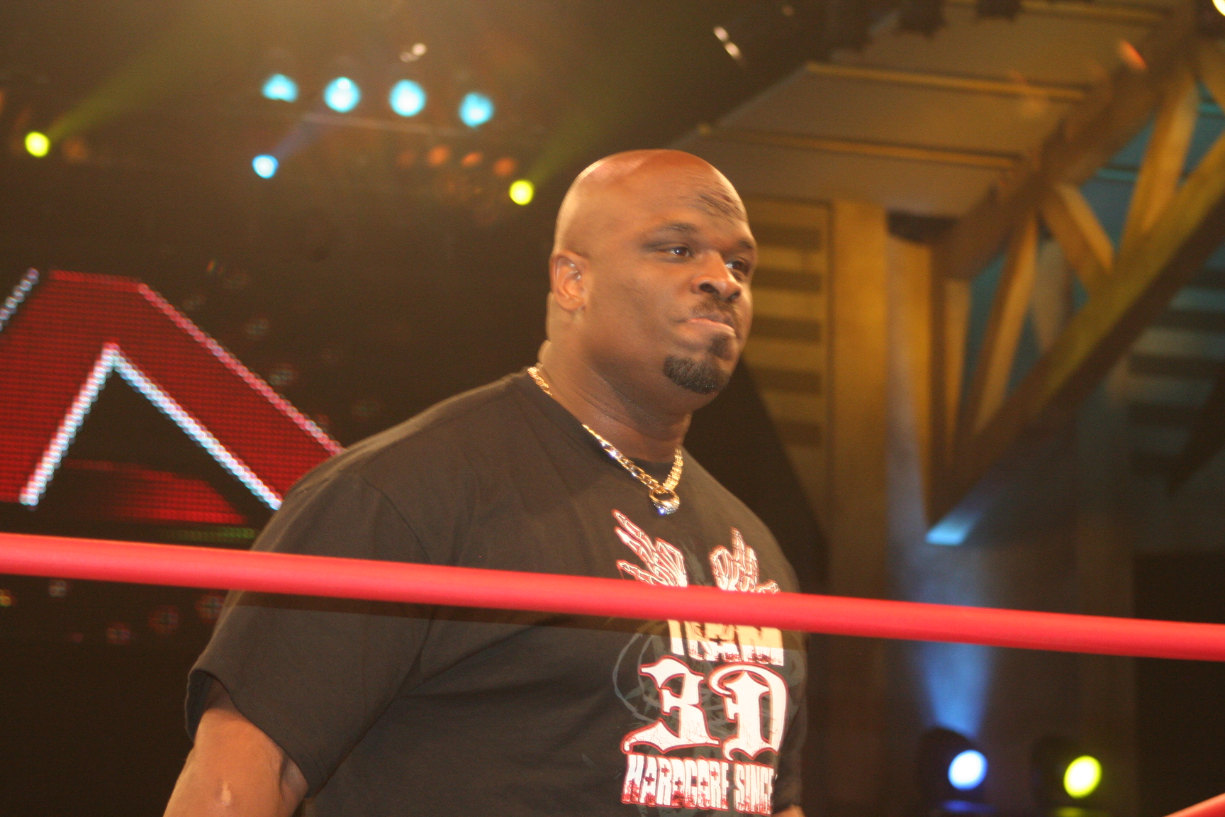 Professional wrestler Brother Devon at a TNA Impact! taping in July 2010.